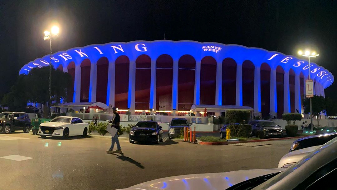 The Forum in LA. Under Jesus is King listening party.